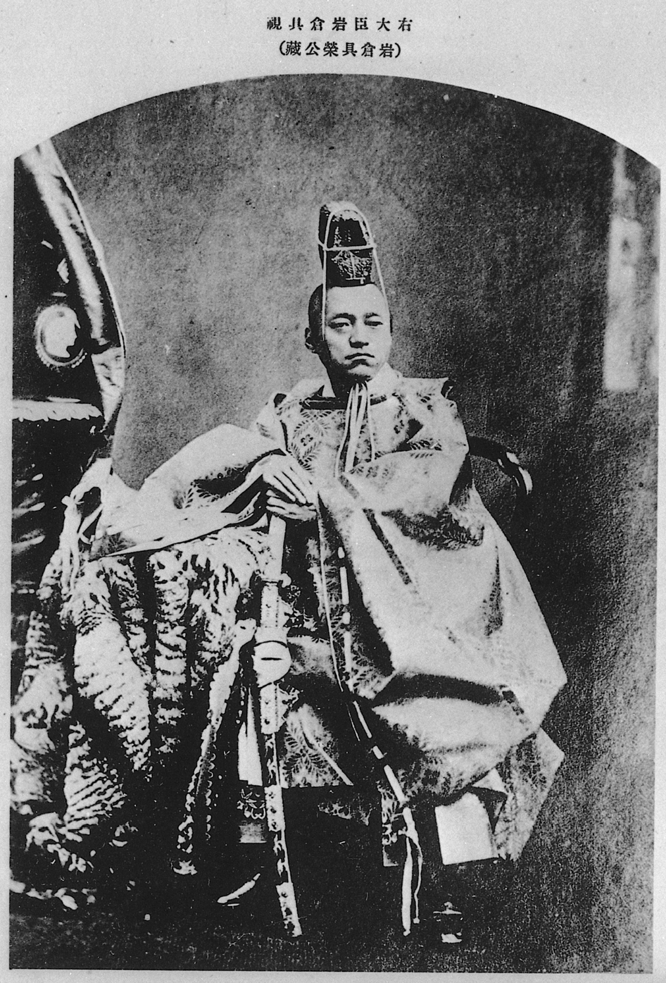 Portrait of Iwakura Tomomi (岩倉具視, 1825 – 1883)